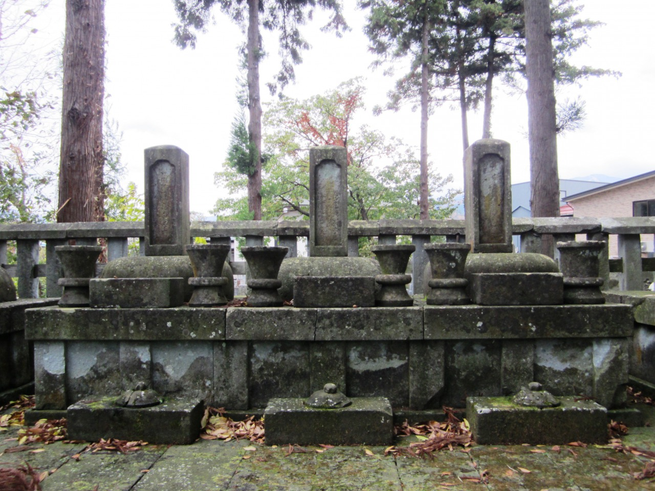 Ogasawara clan's graves in Katsuyama, Fukui. Left to right, Nobutoki's, Nobunari's and Nobutane's.